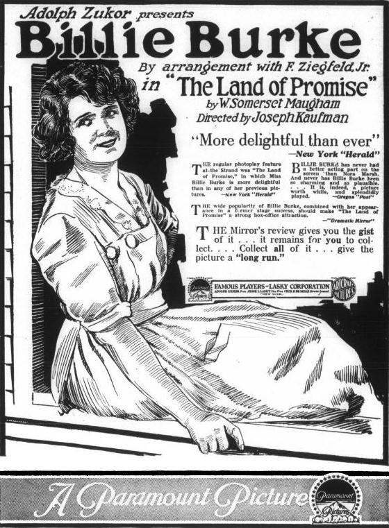 Advertisement for the American comedy drama film The Land of Promise (1917) with Billie Burke, on page 237 of the December 28, 1917 Variety.